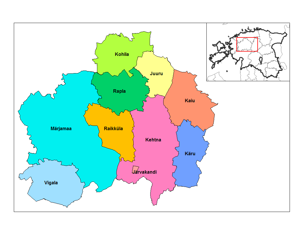 Map of the municipalities of Rapla county in Estonia. Created by Rarelibra 17:35, 22 December 2006 (UTC) for public domain use, using MapInfo Professional v8.5 and various mapping resources.